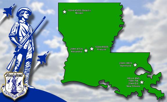 Map showing the locations of the units of the U.S. Louisiana Air National Guard.